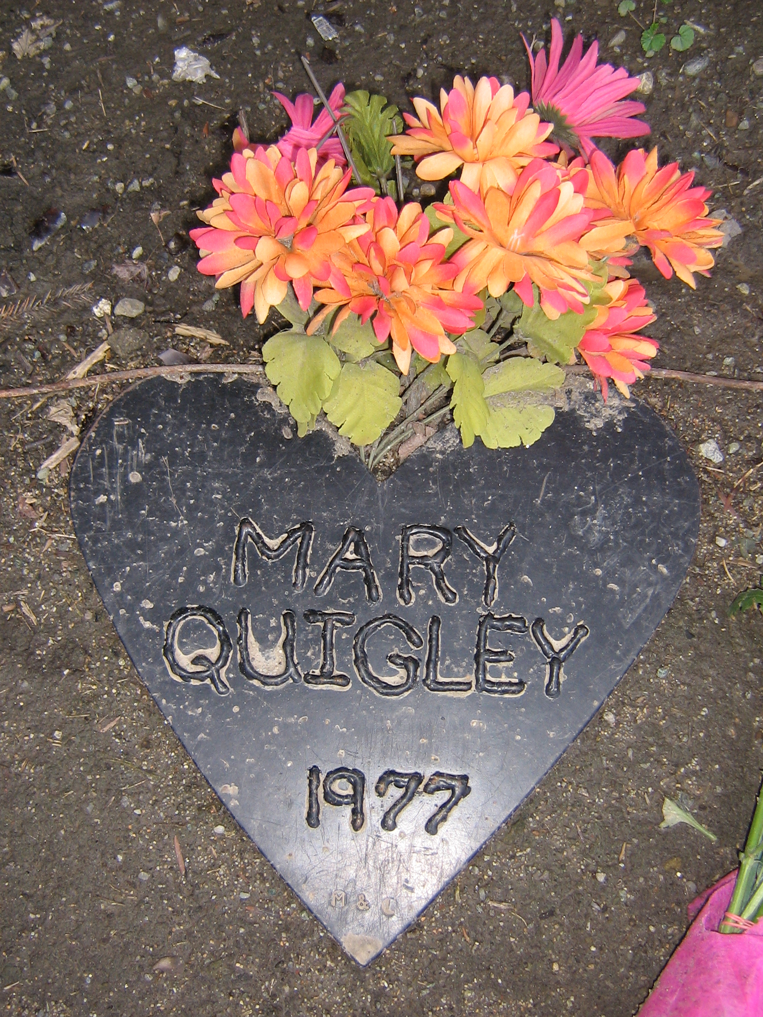 Picture of plaque at the crime scene of the Mary Quigley murder, placed by friends.